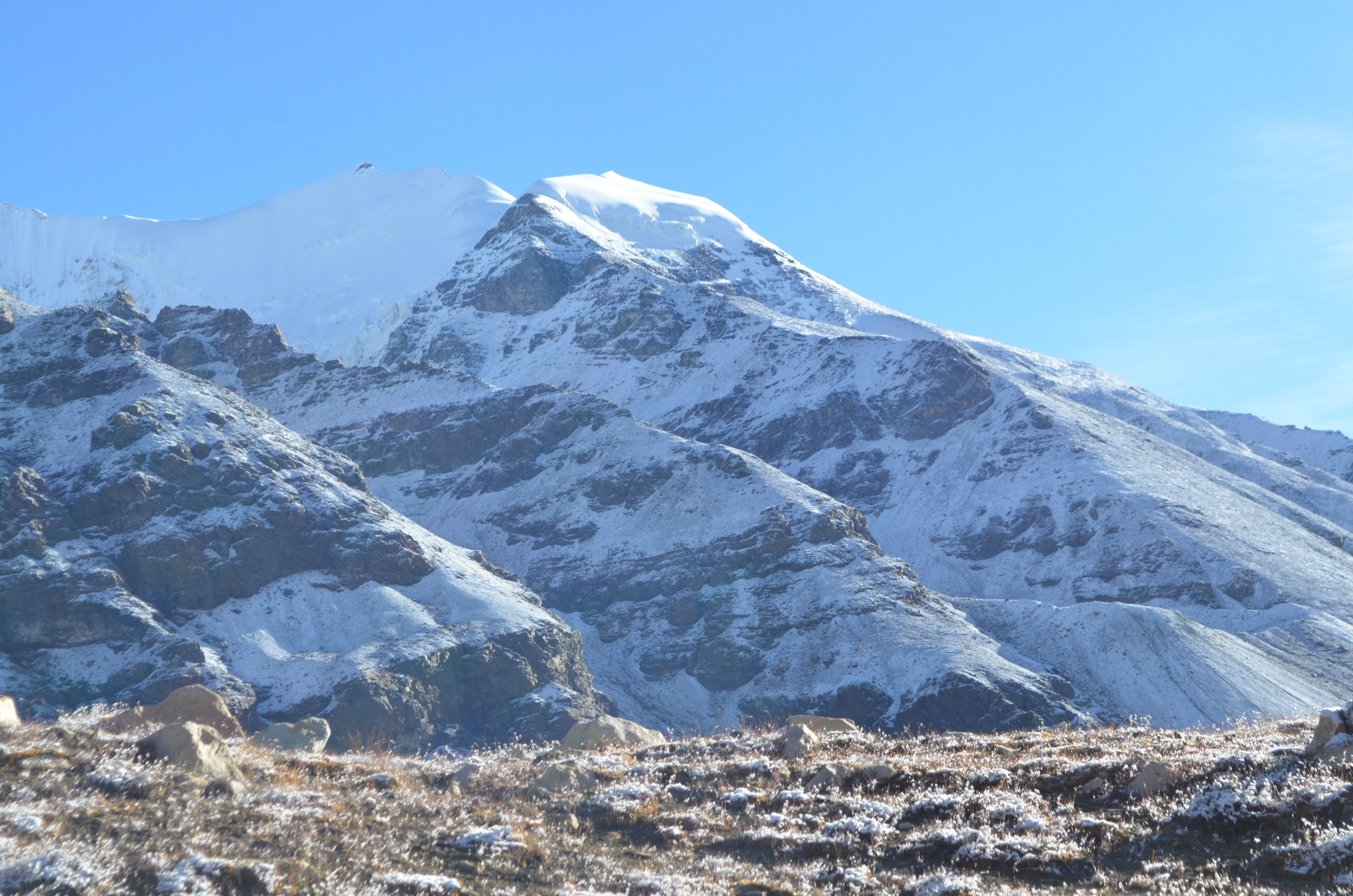 The image was taken in the project WTK 2015.Unnamed peak (22110ft) Chandra main(6728mt), Chandra West(6710mt) (L-R)